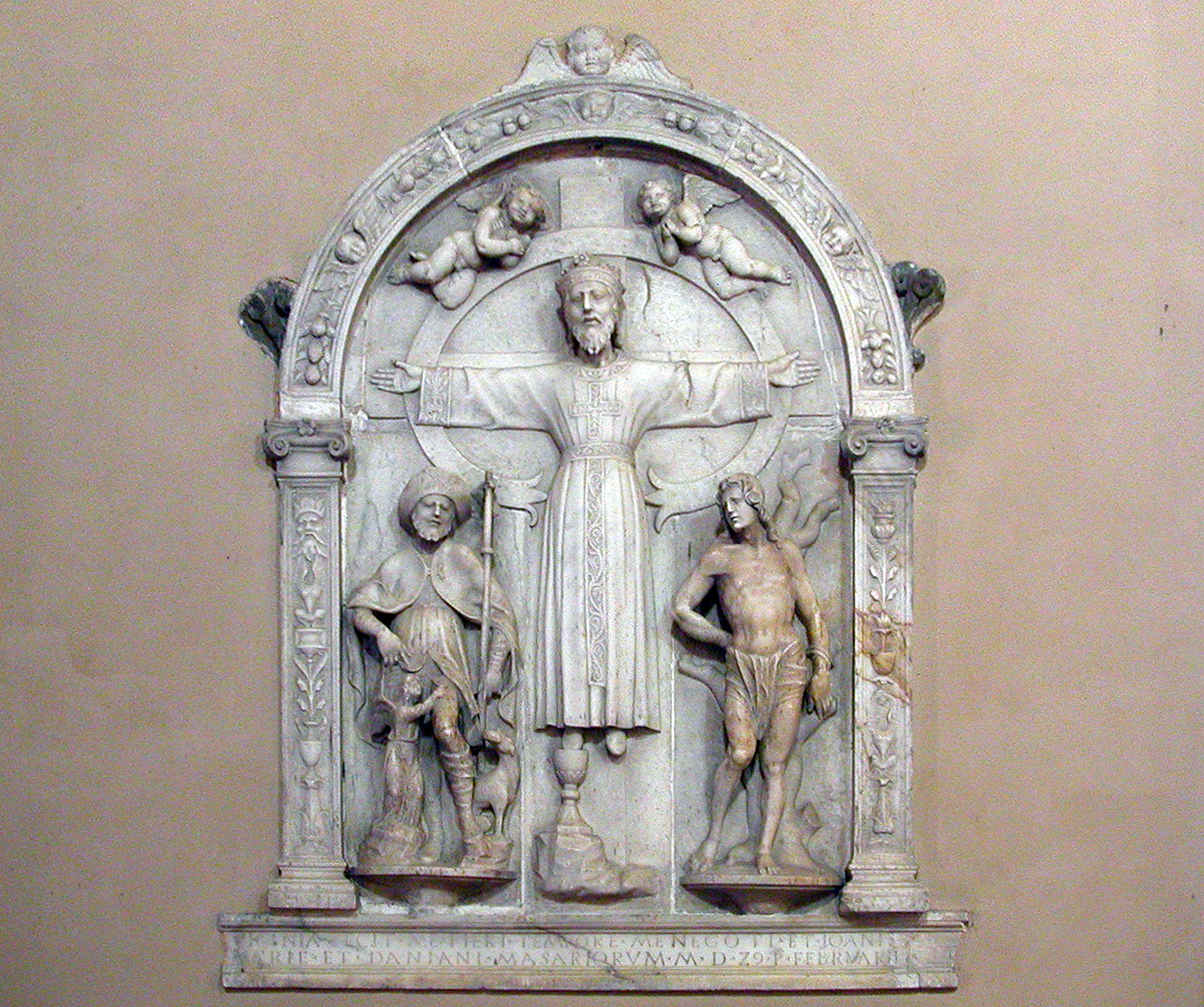 Montemarcello, part of Ameglia (SP), St. Peter's Church. Marble bas-relief of 1529 with the Volto Santo di Lucca, alongside the saints Roch and Sebastian.